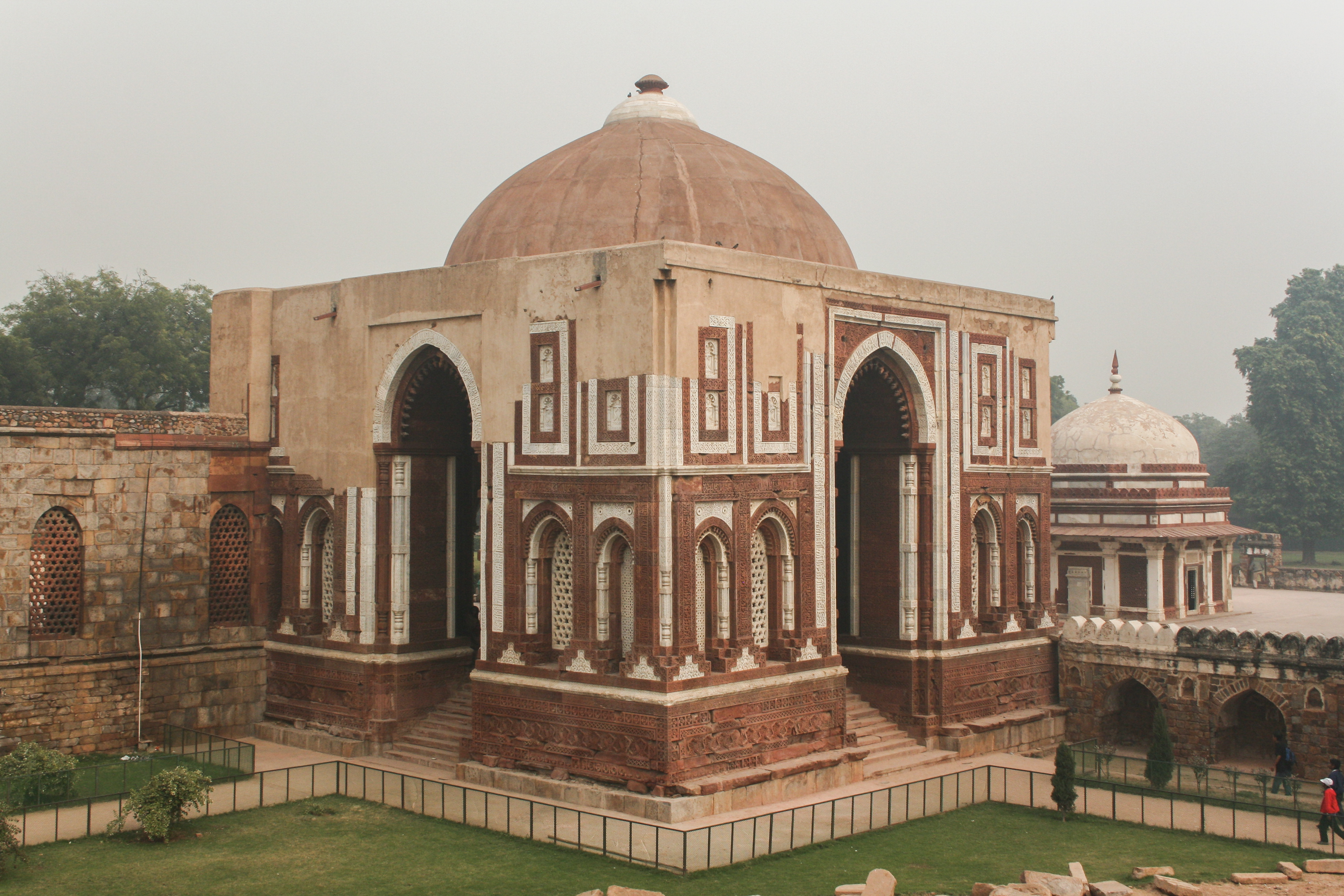 Qutb Minar and its monuments, Delhi, INdia